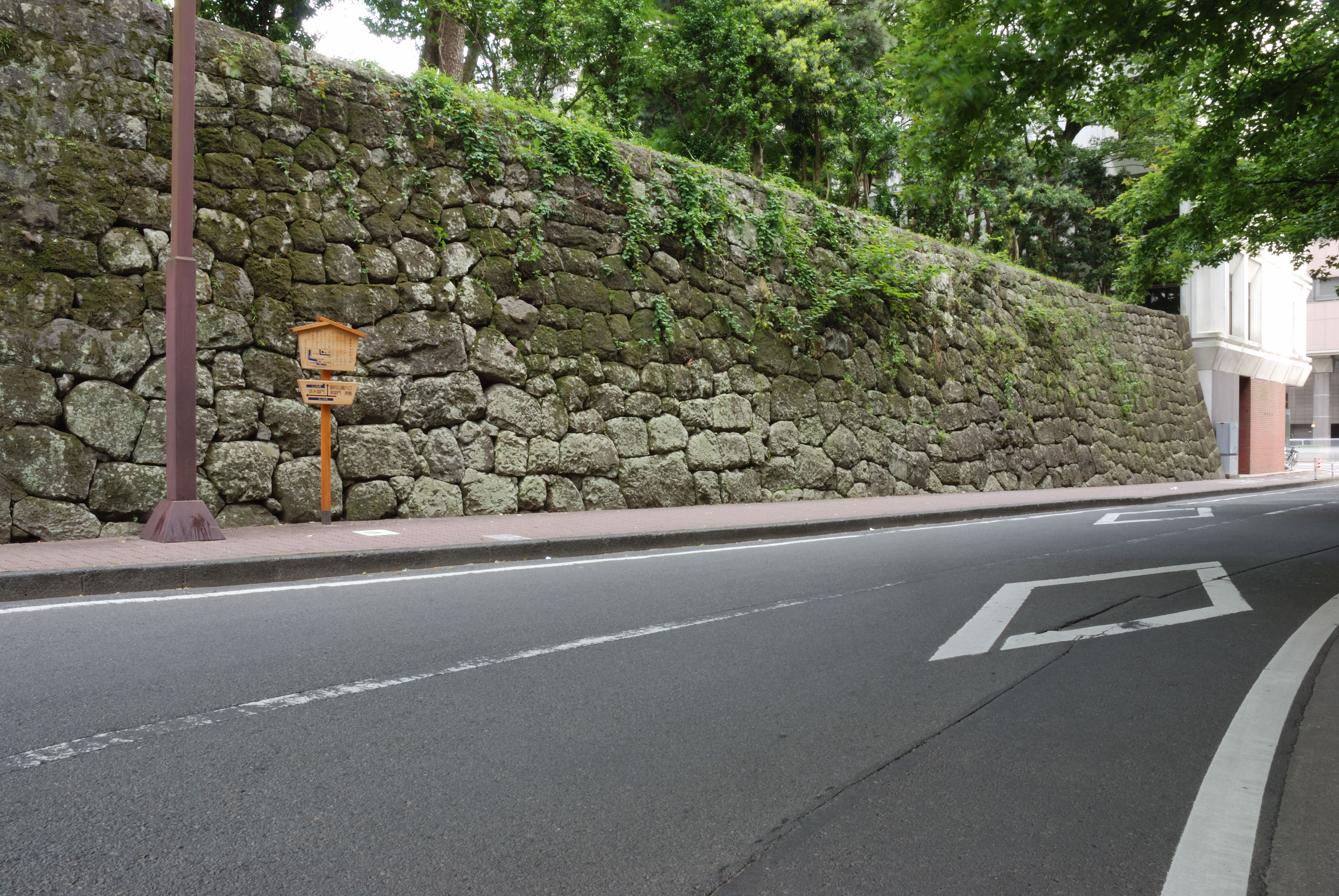 Yotsuashigomon ishigaki